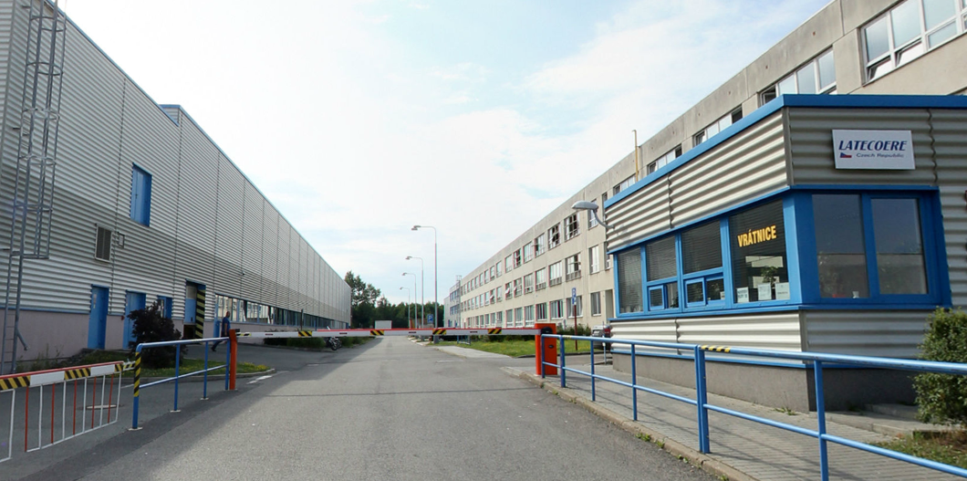 Sídlo společnosti LATECOERE Czech Republic v pražských Letňanech